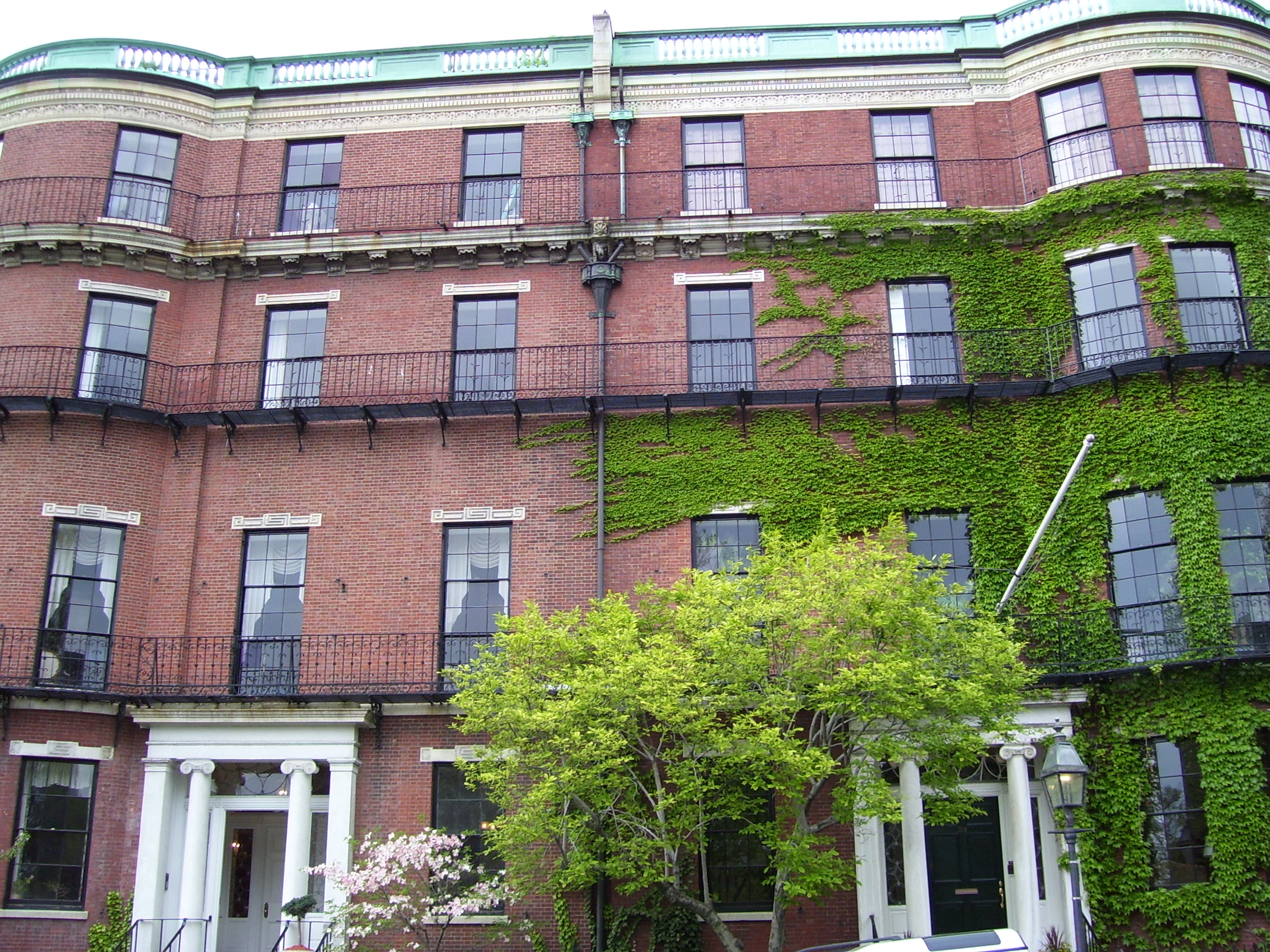 My 2008 photo of the Nathan Appleton House in Boston, Massachusetts.